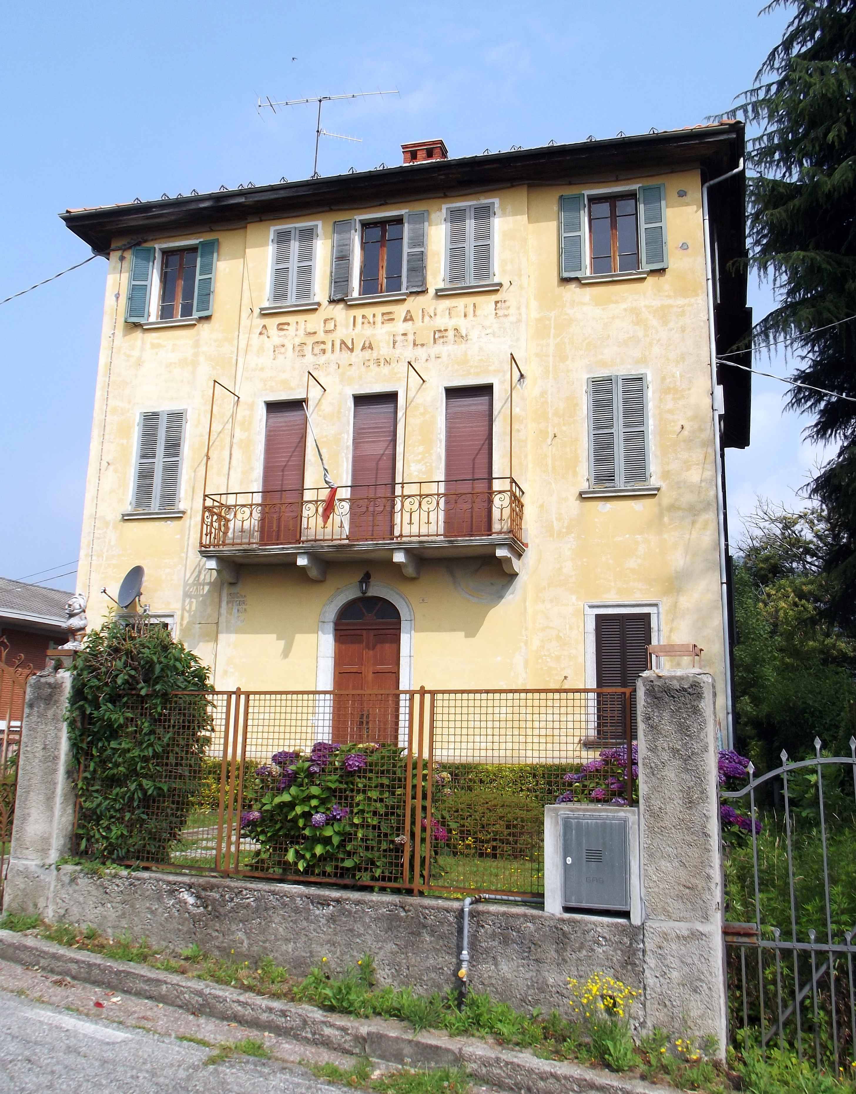 Artò (Madonna del Sasso, VB, Italy): former school